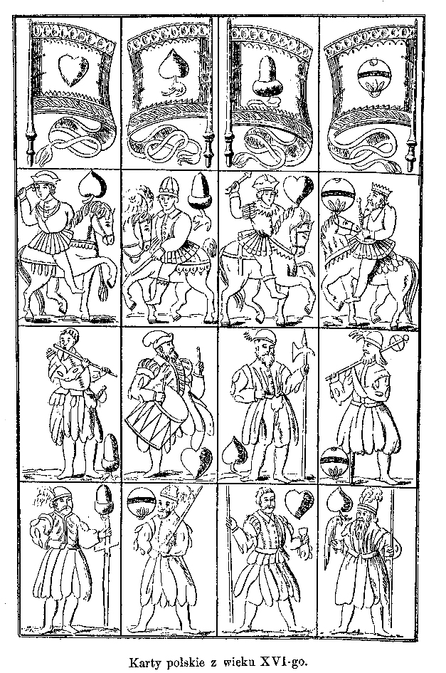 Polish cards to play, XVI century